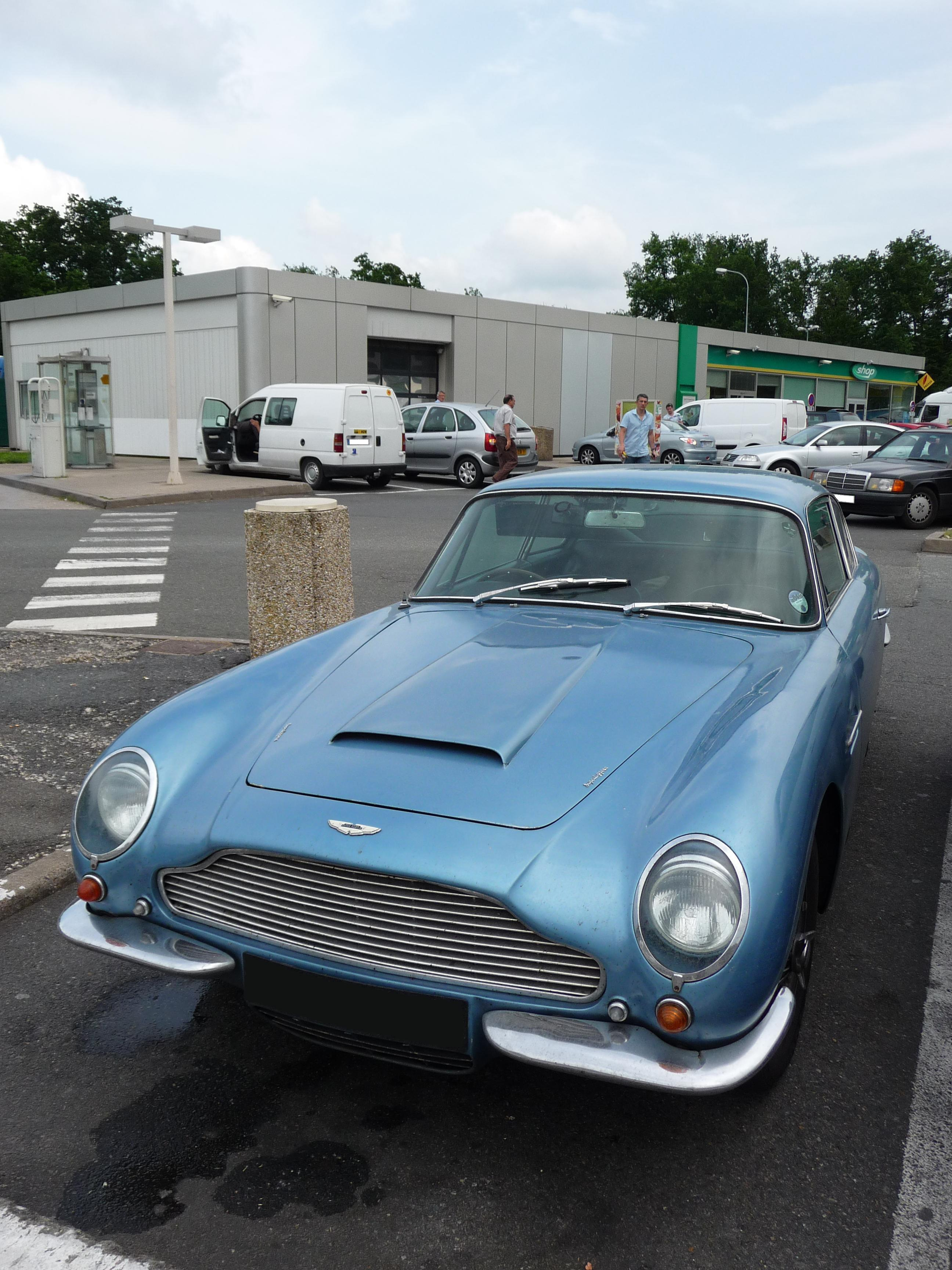 Front view of a blue DB6 Aston Martin